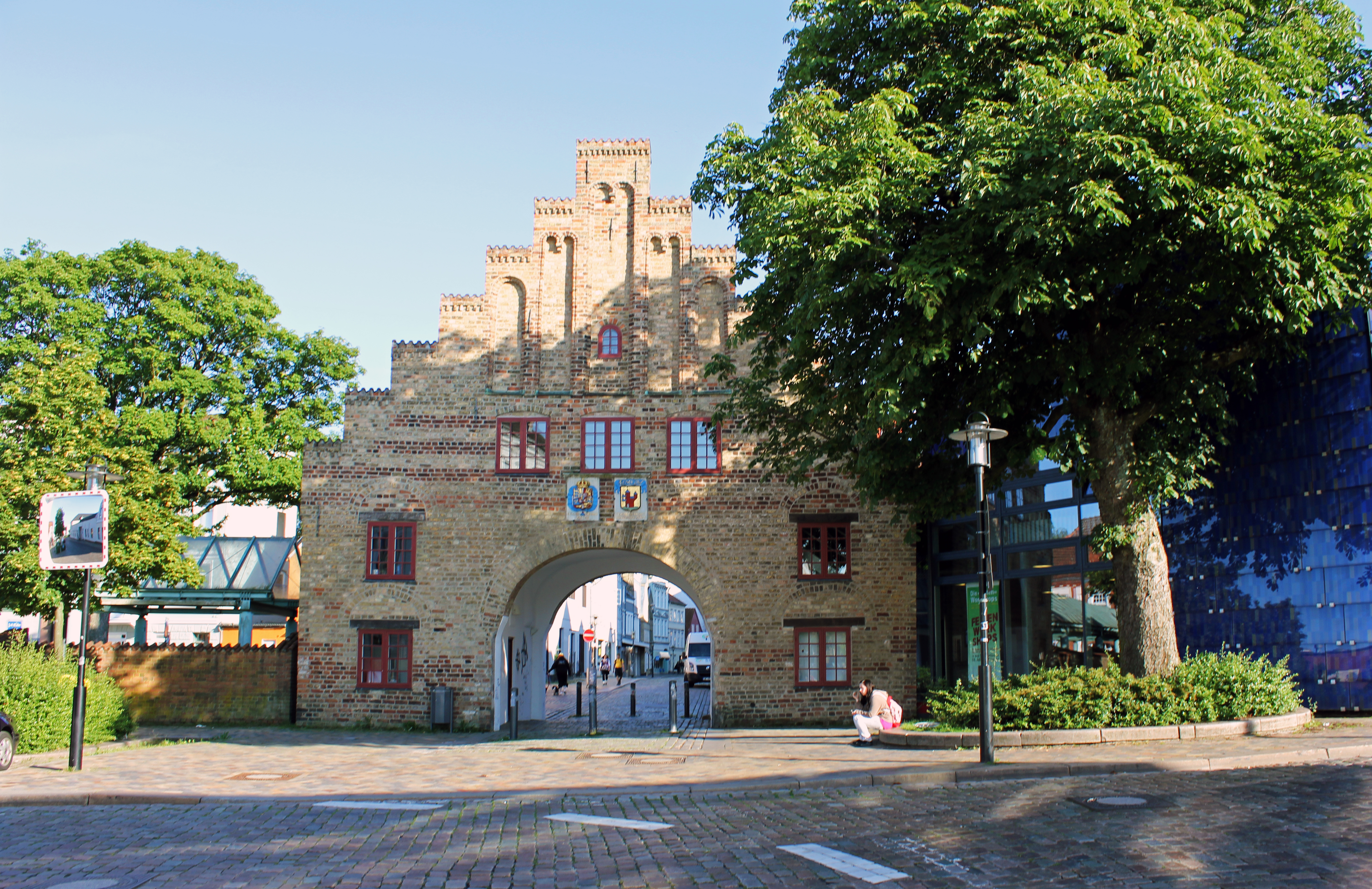 Northern Side of Nordertor (Northern gate) summer 2011